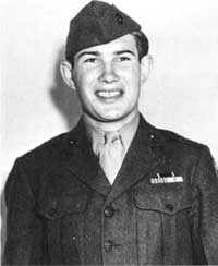 Pvt Richard K. Sorenson, Marine Corps Medal of Honor recipient; Photo from the Marine Corps Historical Collection, retrieved from